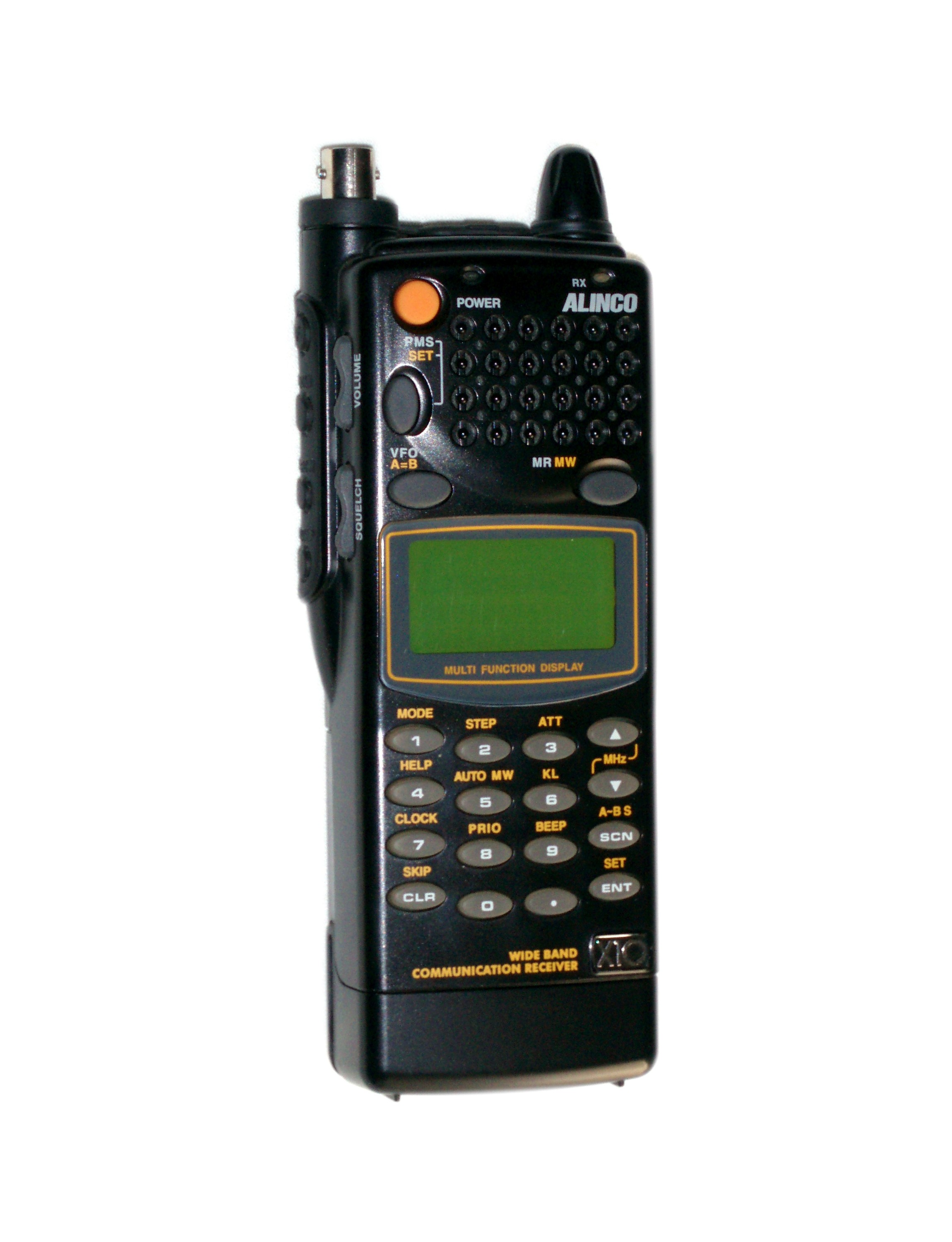 Hand-held wide band communications receiver, aka RF or radio scanner.